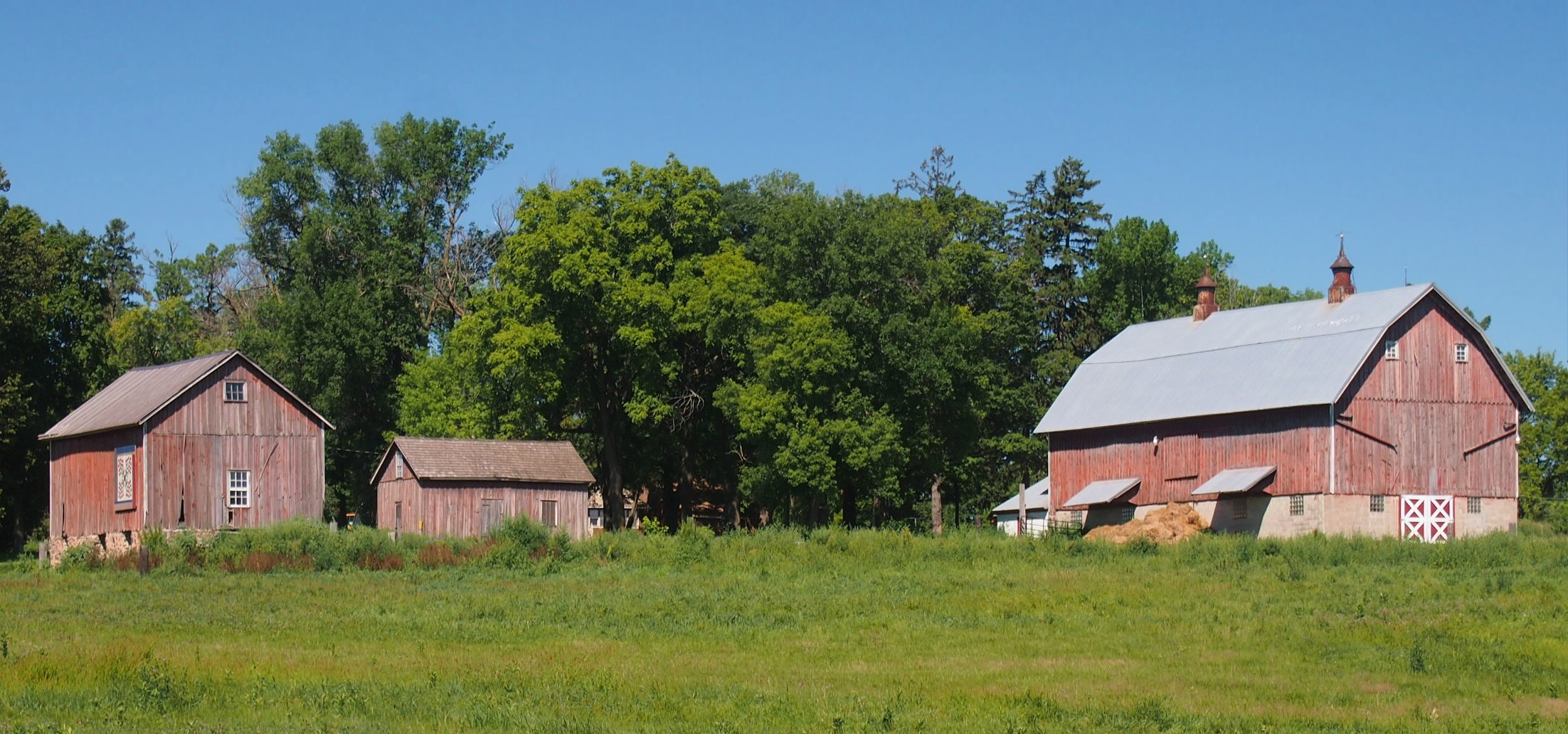 Andrew Peterson Farmstead, Laketown Township, Minnesota, USA. Viewed from the southeast.